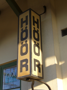 An old sign with the town name at the Höör train station